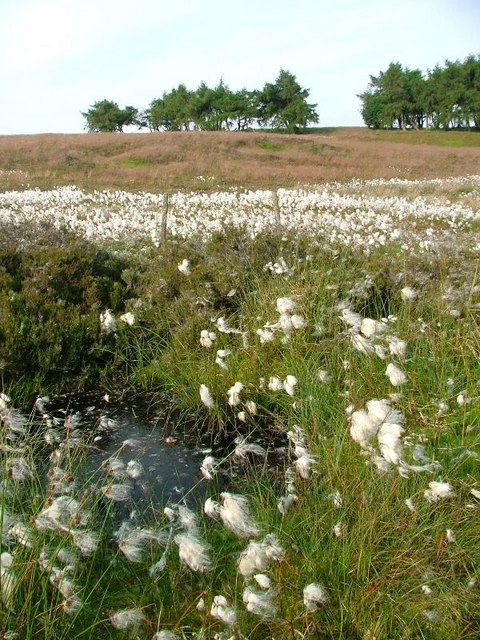 Aircraft Crash Site, Easby Moor. At 4:10 on the morning of 11th February 1940 a Hudson aircraft took off from Thornaby Airfield (NZ455160) to search for German minesweepers operating off the Danish coast. Five minutes later the plane crashed on Easby Moor killing three of the four man crew and injuring the fourth. Ice had formed on the wings causing the aircraft to fail to gain sufficient height to clear the hills. The aircraft ploughed through the larch plantation shown in the image before coming to rest. The gap in the plantation corresponds exactly with the Hudson's wingspan of 65½ feet. The aircrew who died were Flying Officer Tom Parker, Sergeant Harold Berksley and Corporal Norman Drury. Leading Aircraftman Athol Barker survived but was later lost flying over Germany. The four unexploded bombs that the Hudson carried were later detonated by the RAF resulting in the pond shown in the foreground.